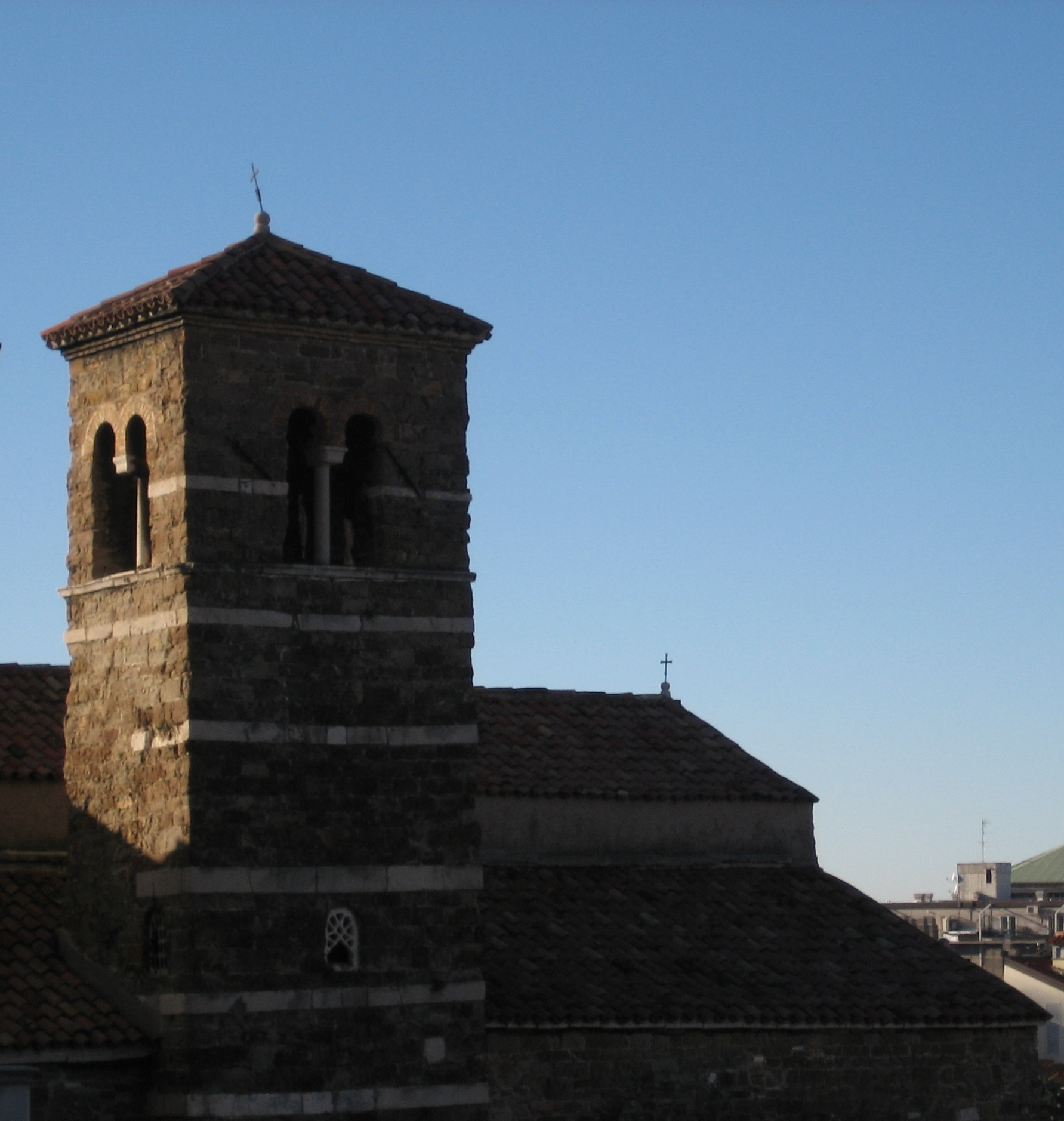 Tower of the basilica of San Silvestro in Trieste